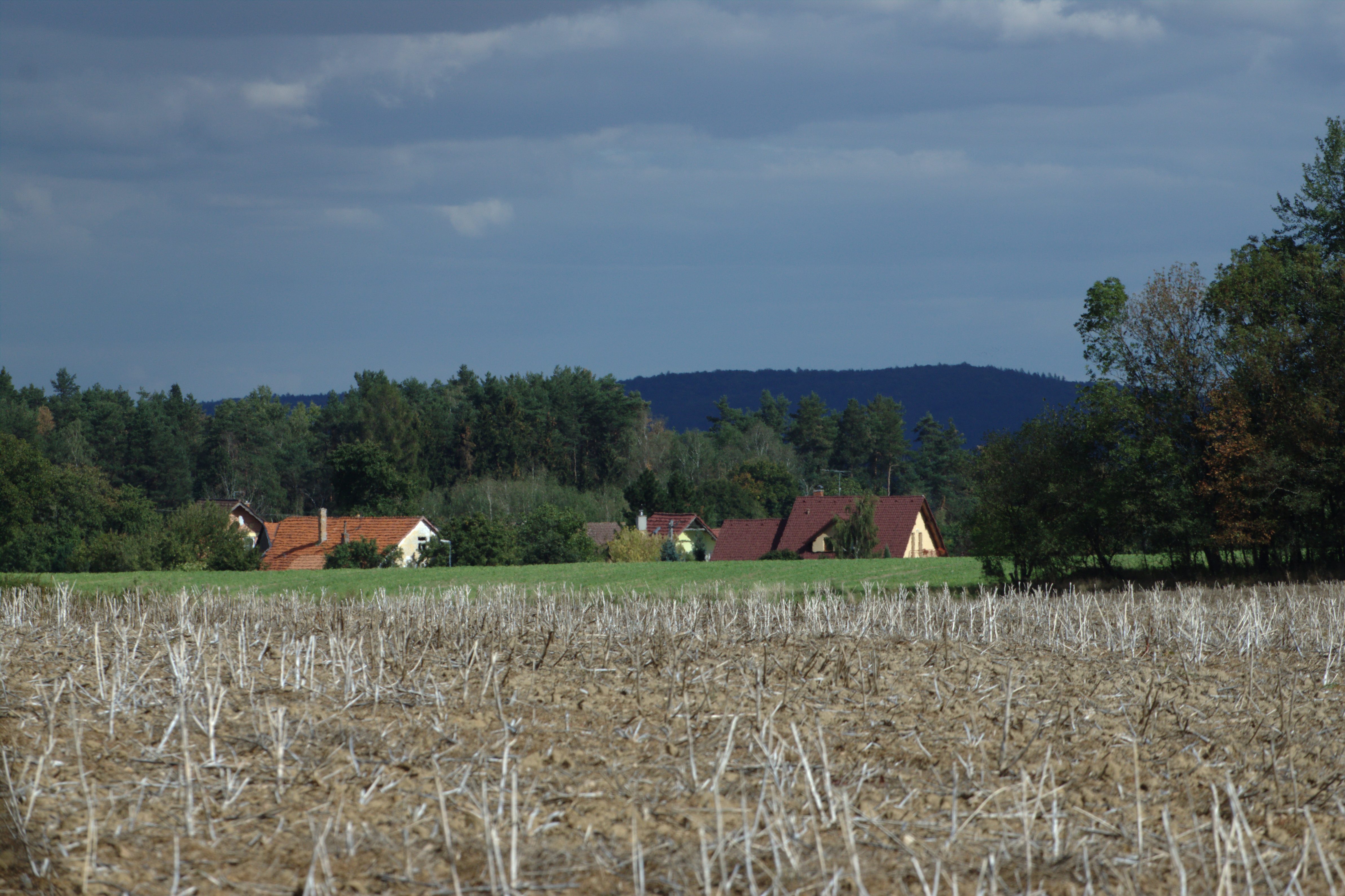 VIew of the village of Vranovská Lhota from Čistec, Central Bohemia, CZ